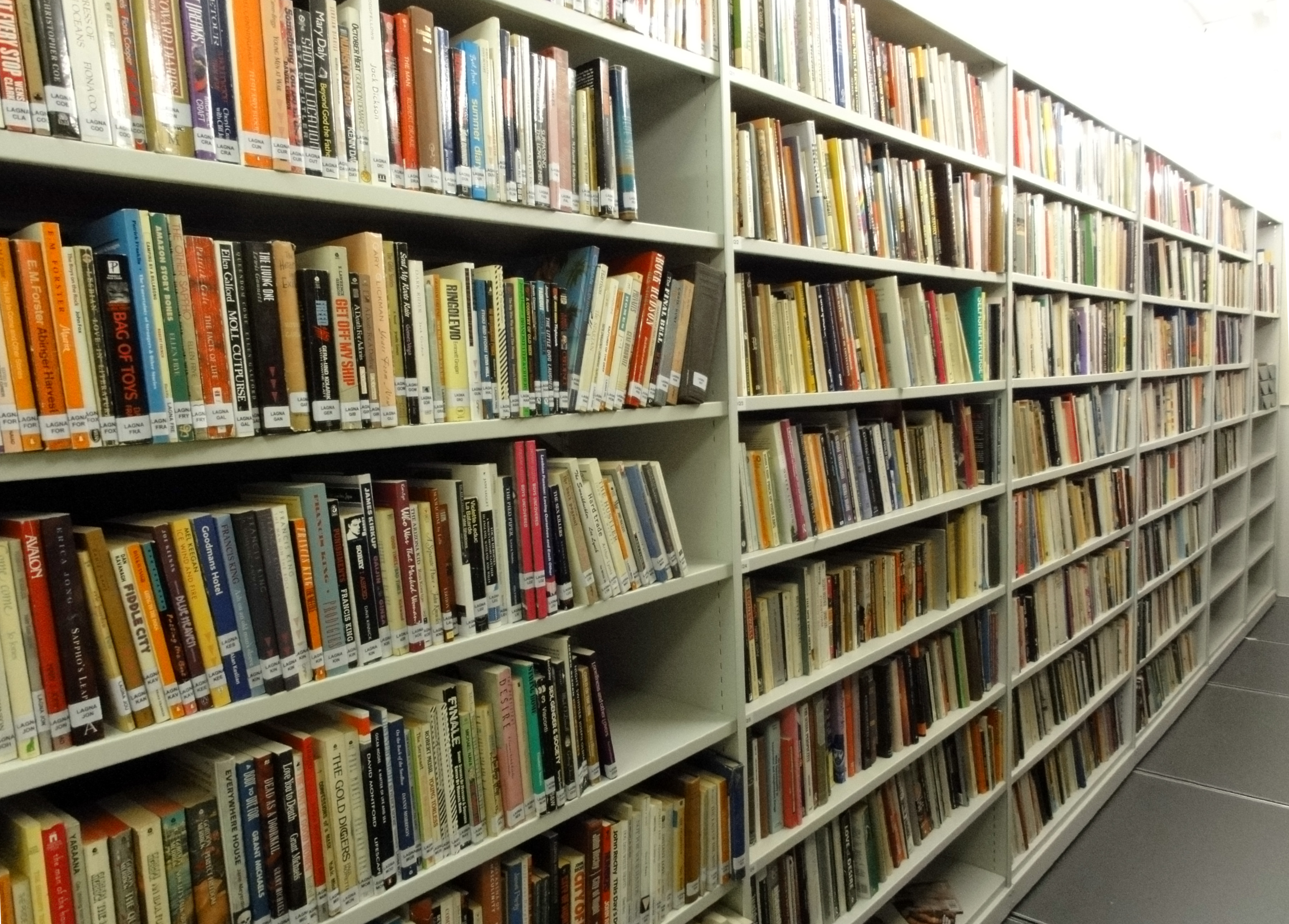 Part of the Hall–Carpenter Archives in the basement archive of the Bishopsgate Institute Library.